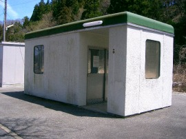 Gōdo Station, Yanaizu, Kawanuma District, Fukushima, Japan